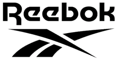 Logo of Reebok.